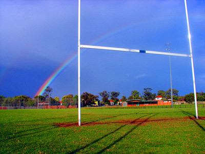 Revesby Heights JRLFC Home ground and clubhouse - Neptune Park Revesby Heights